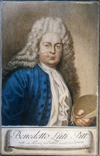 Self portrait of Benedetto Luti (engraving)